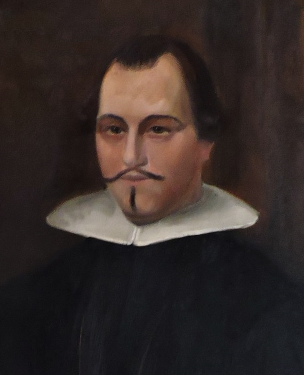 Portrait of Antão de Almada, 7th Count of Avranches (c. 1573–1644), c. 19th century, in the Palace of Independence, Lisbon, Portugal.